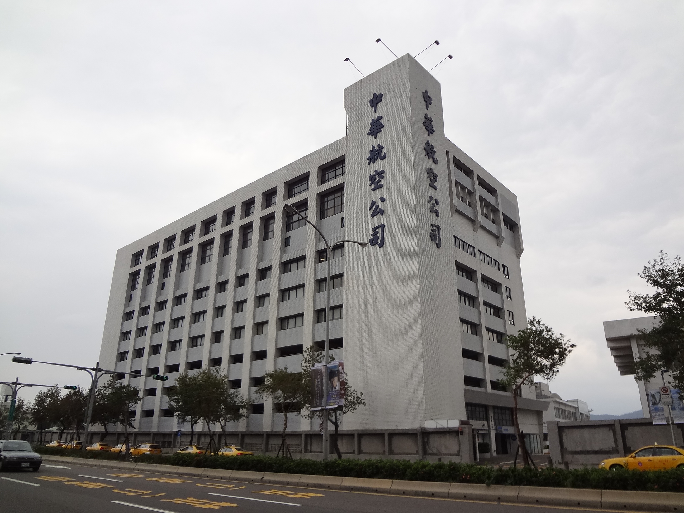 China Airlines Minquan Building - No.3, Alley 123, Lane 405, Dunhua North Road, Songshan District, Taipei City - Headquarters of Mandarin Airlines